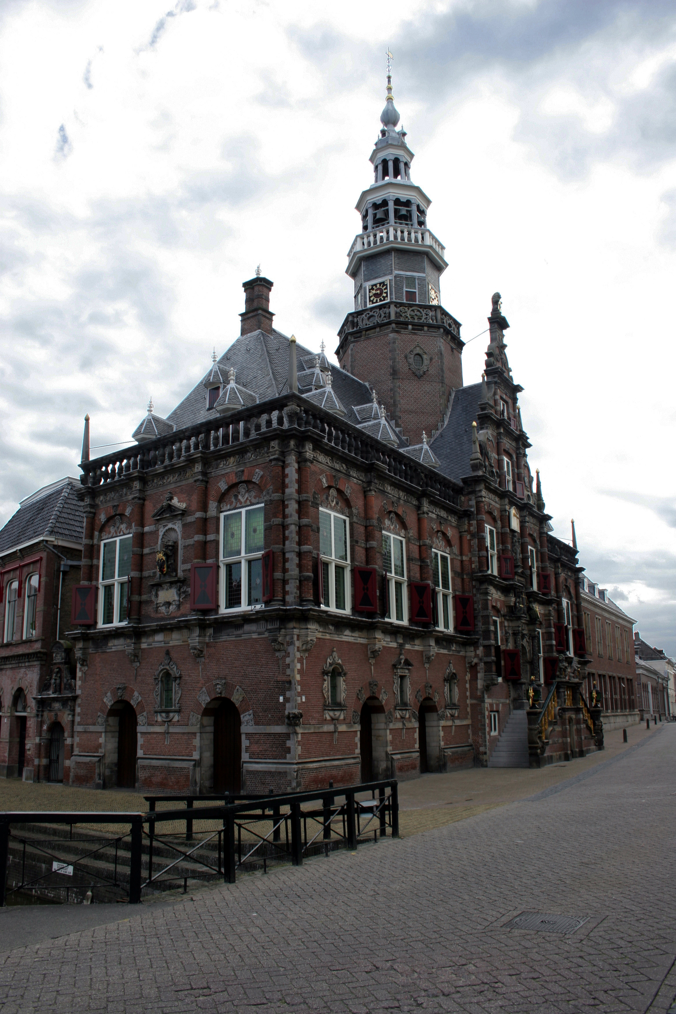 Townhall of Bolsward, Friesland, Netherlands.